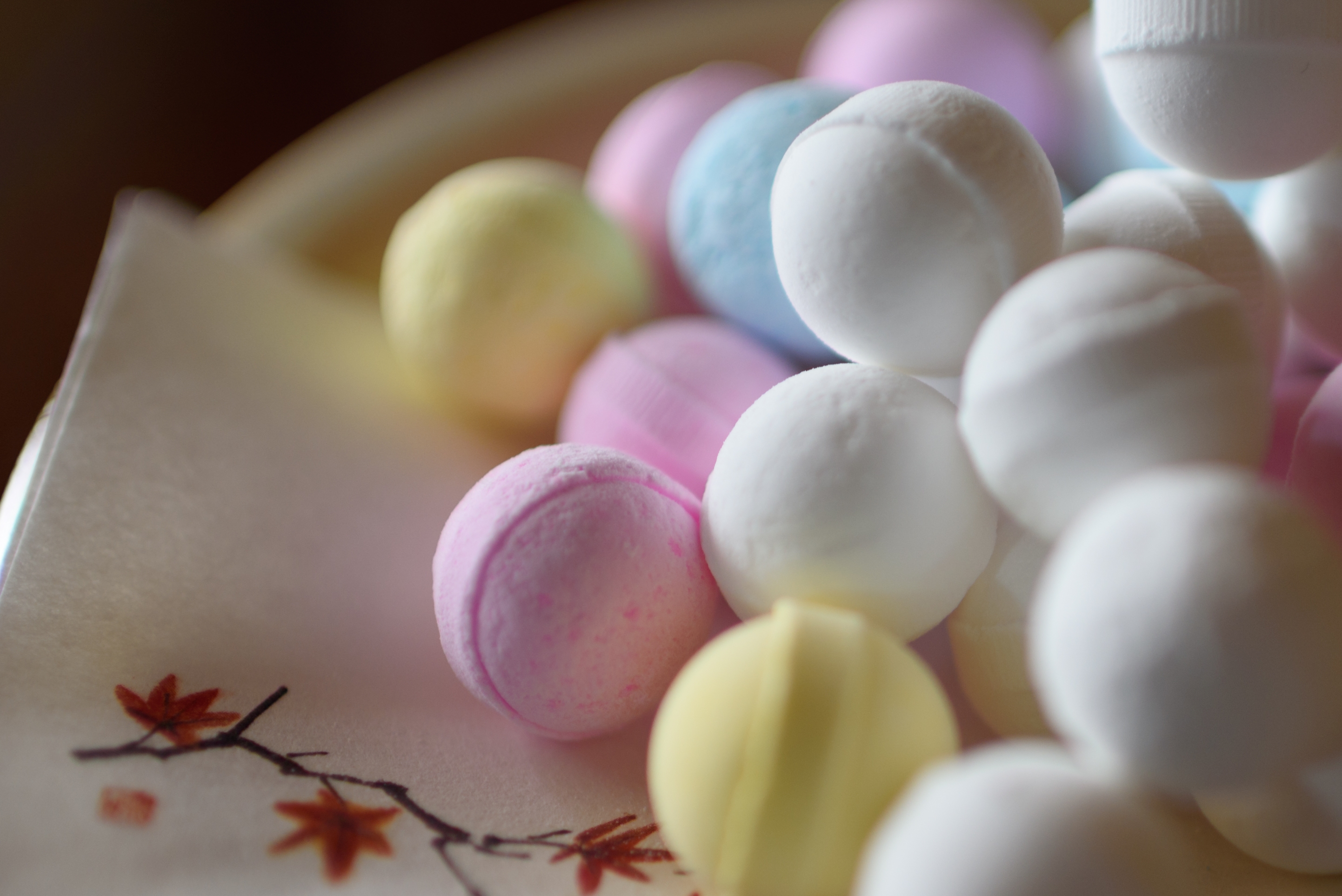 Rainbow Ramune is the candy tablet made by Ikoma Seika Hompo.